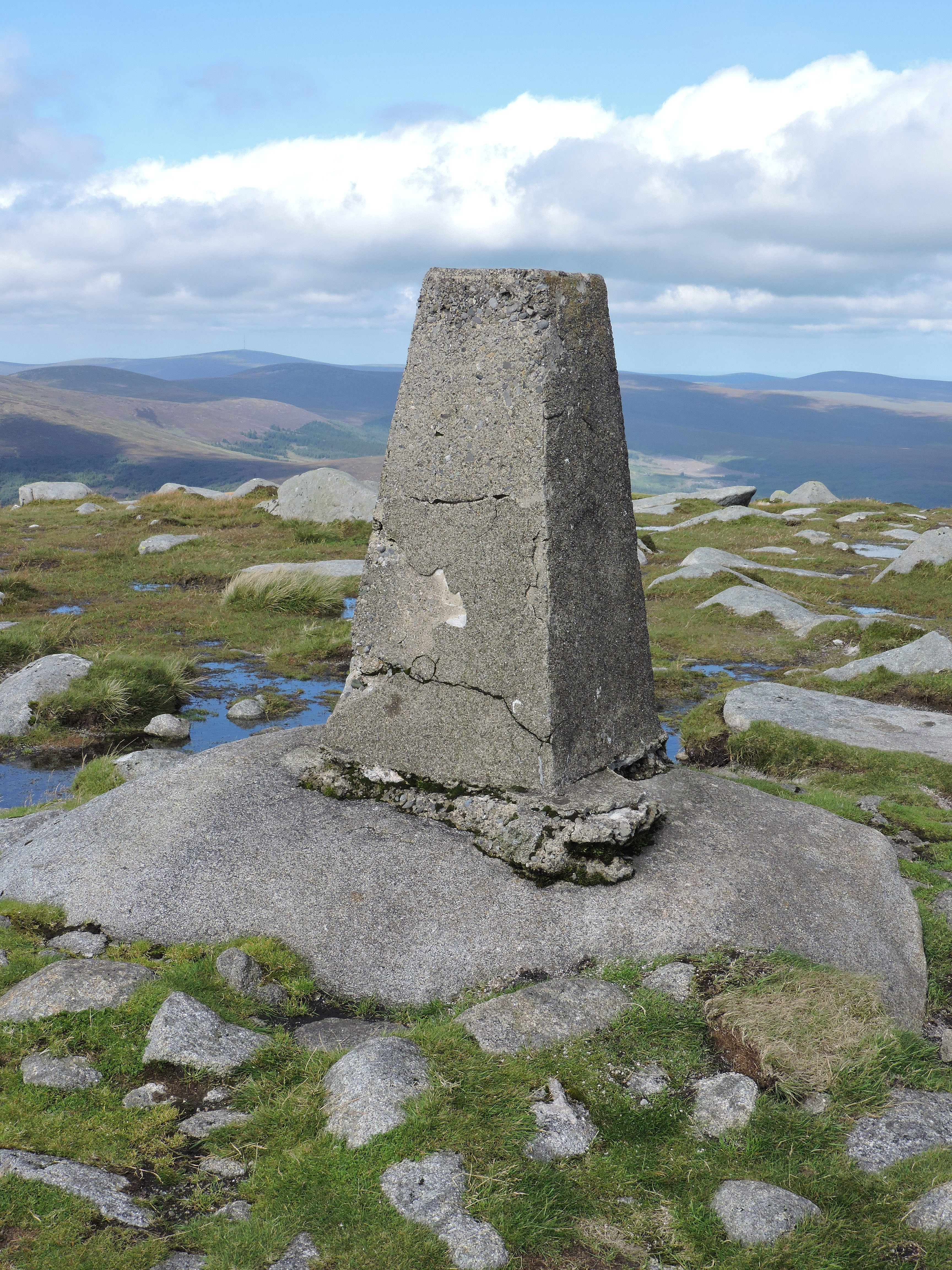 Tonelagee (County Wicklow): summit pillar